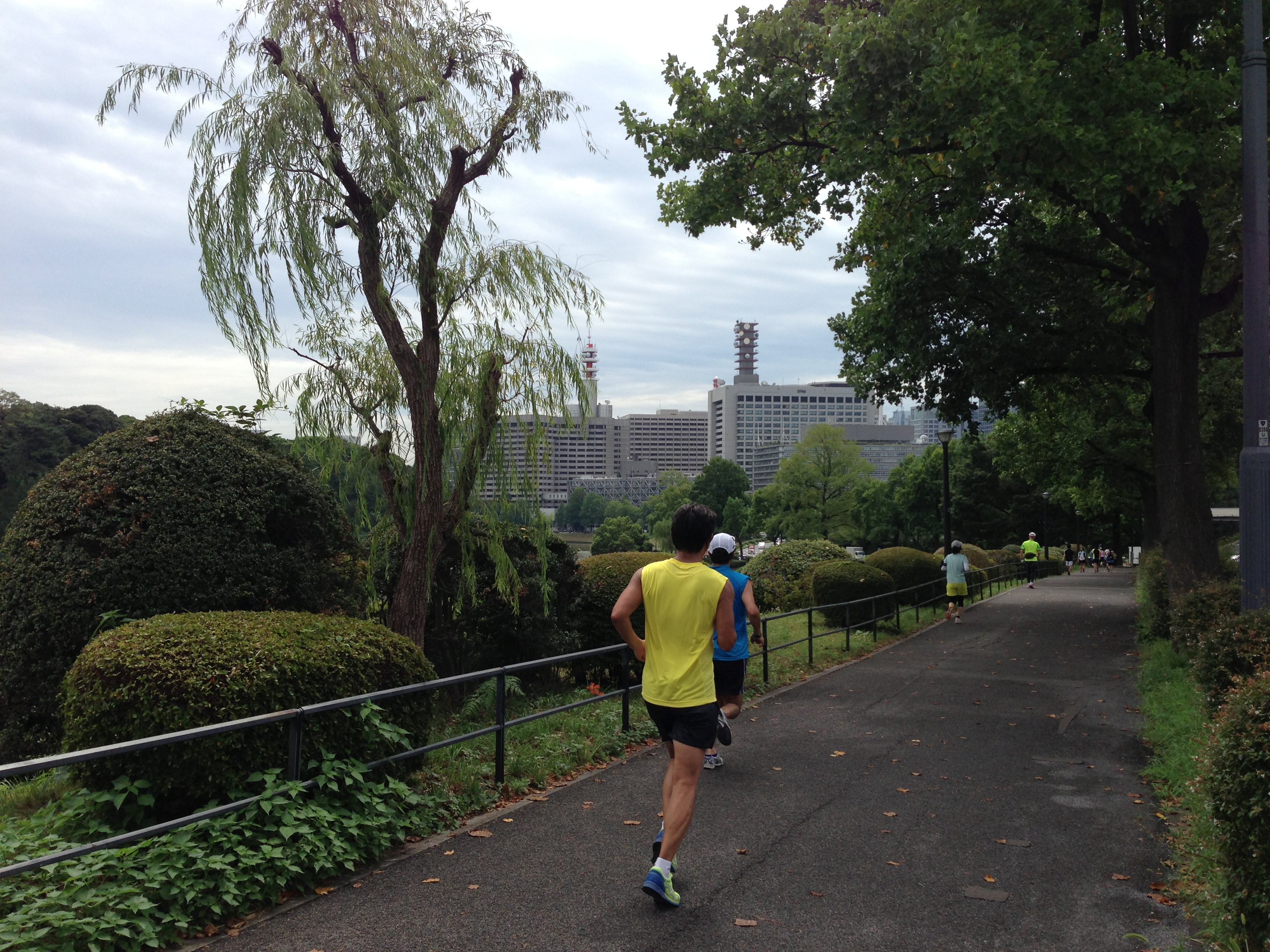 Jogger running around Tokyo Imperial Palace(Kokyo)